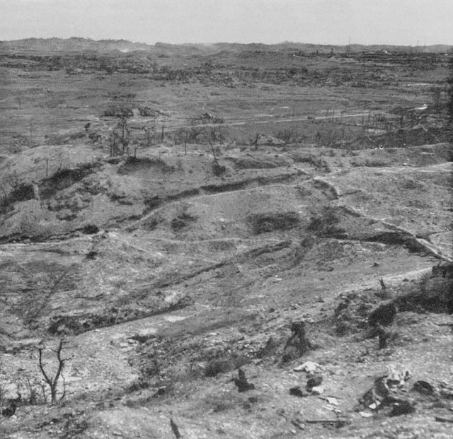 HALF MOON HILL and the corridor leading to the Kokuba Gawa as seen from the Sugar Loaf in Okinawa 1945.